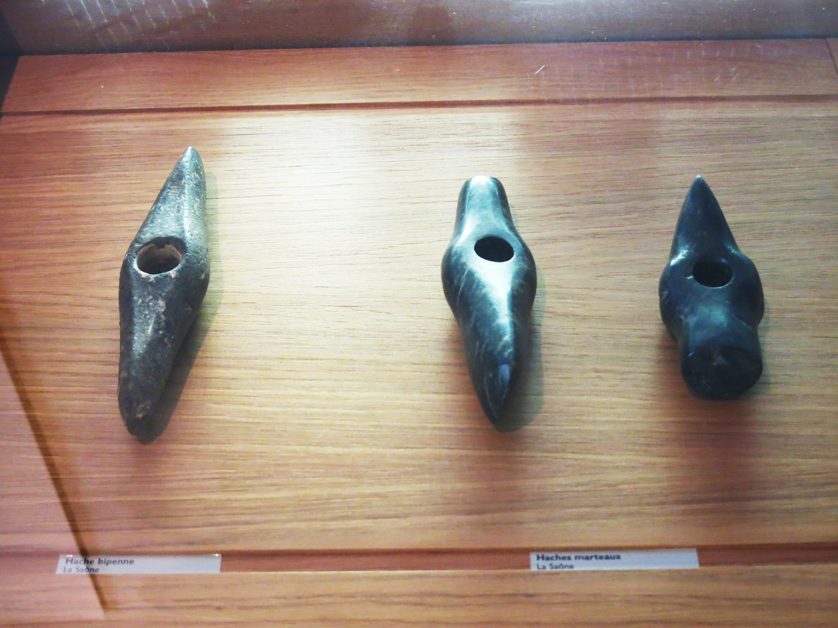 Antic axes in the collections of the Hôtel-Dieu in Tournus (Saône-et-Loire, France). Found in Saône River.